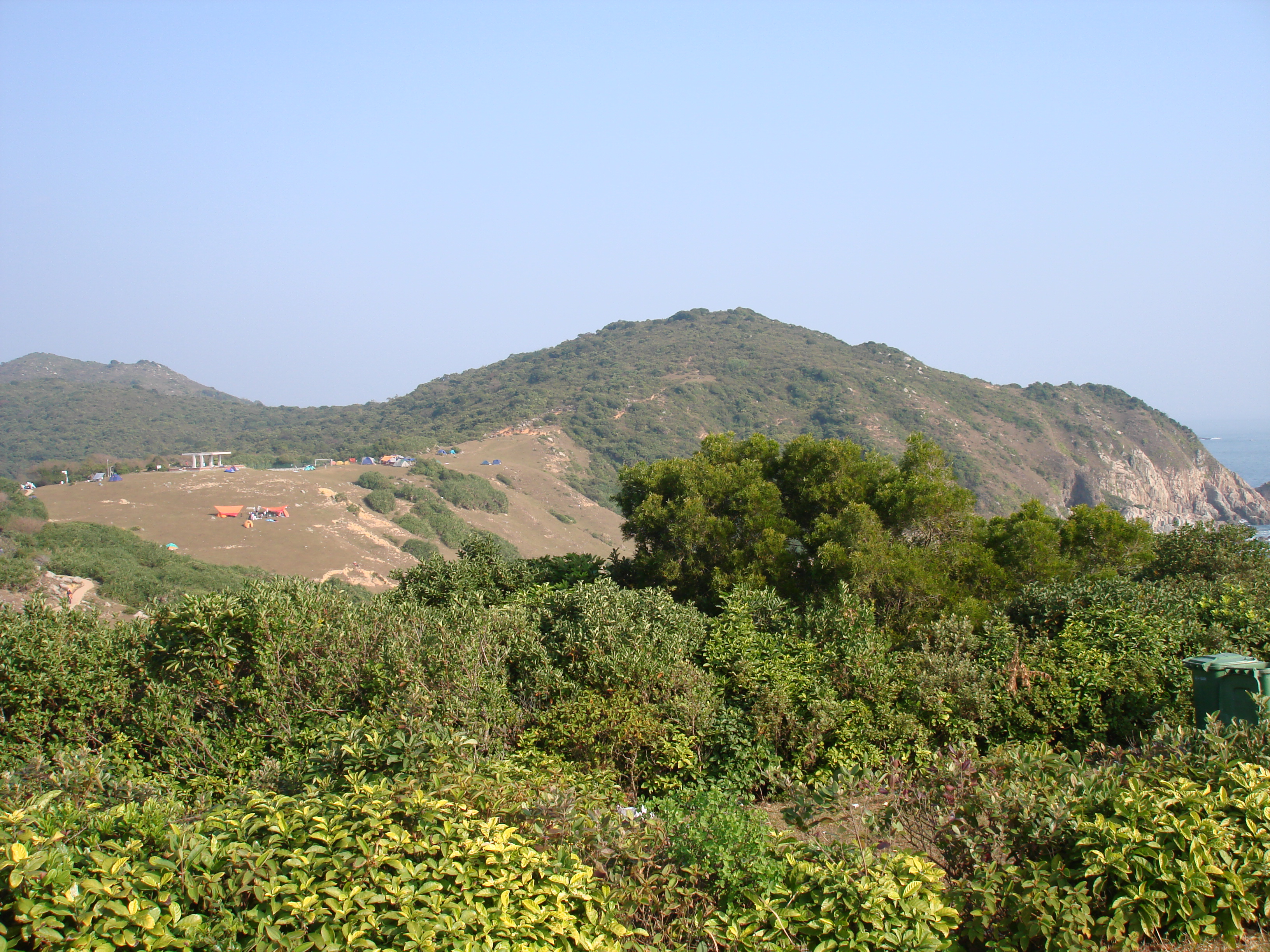 View from a hilltop in Tap Mun, Hong Kong SAR. Tents of a nearby campsite can be seen on the distant hilltop.